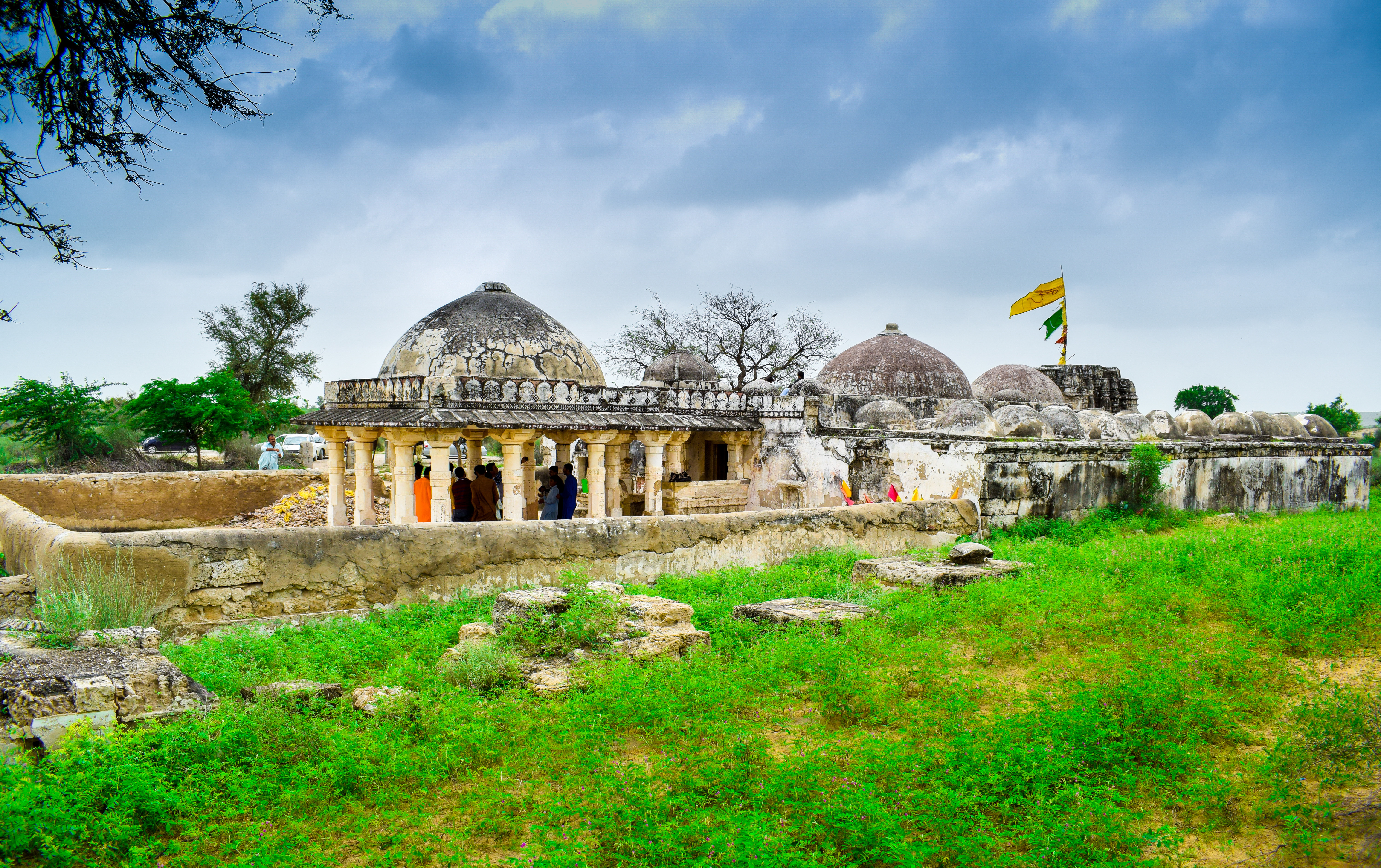 Gori Temple This is a photo of a monument in Pakistan identified as the SD-68 سنڌي: گوري جو مندر